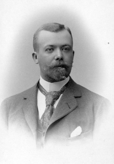 Swedish industrialist Magnus Eidem (1866-1930)